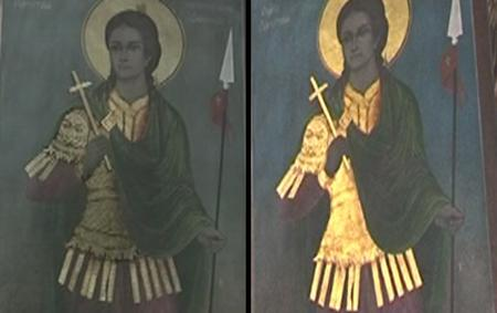 Comparation of the Frescos in St. Demetrious Church in Skopje before and after the Miracle in april 2012